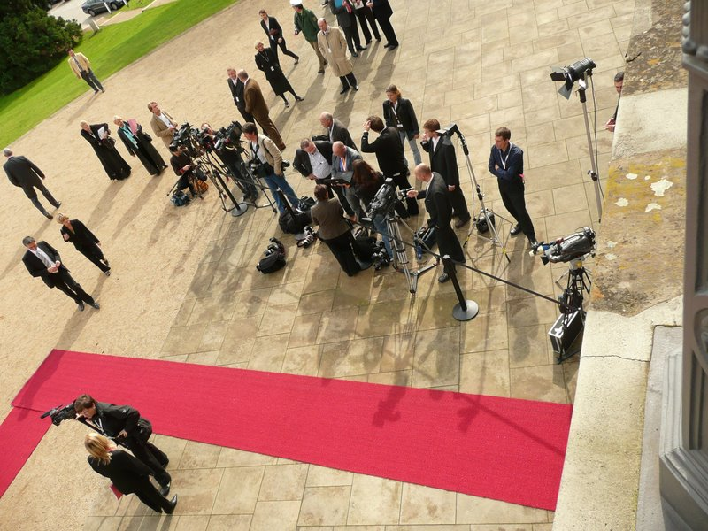 red carpet